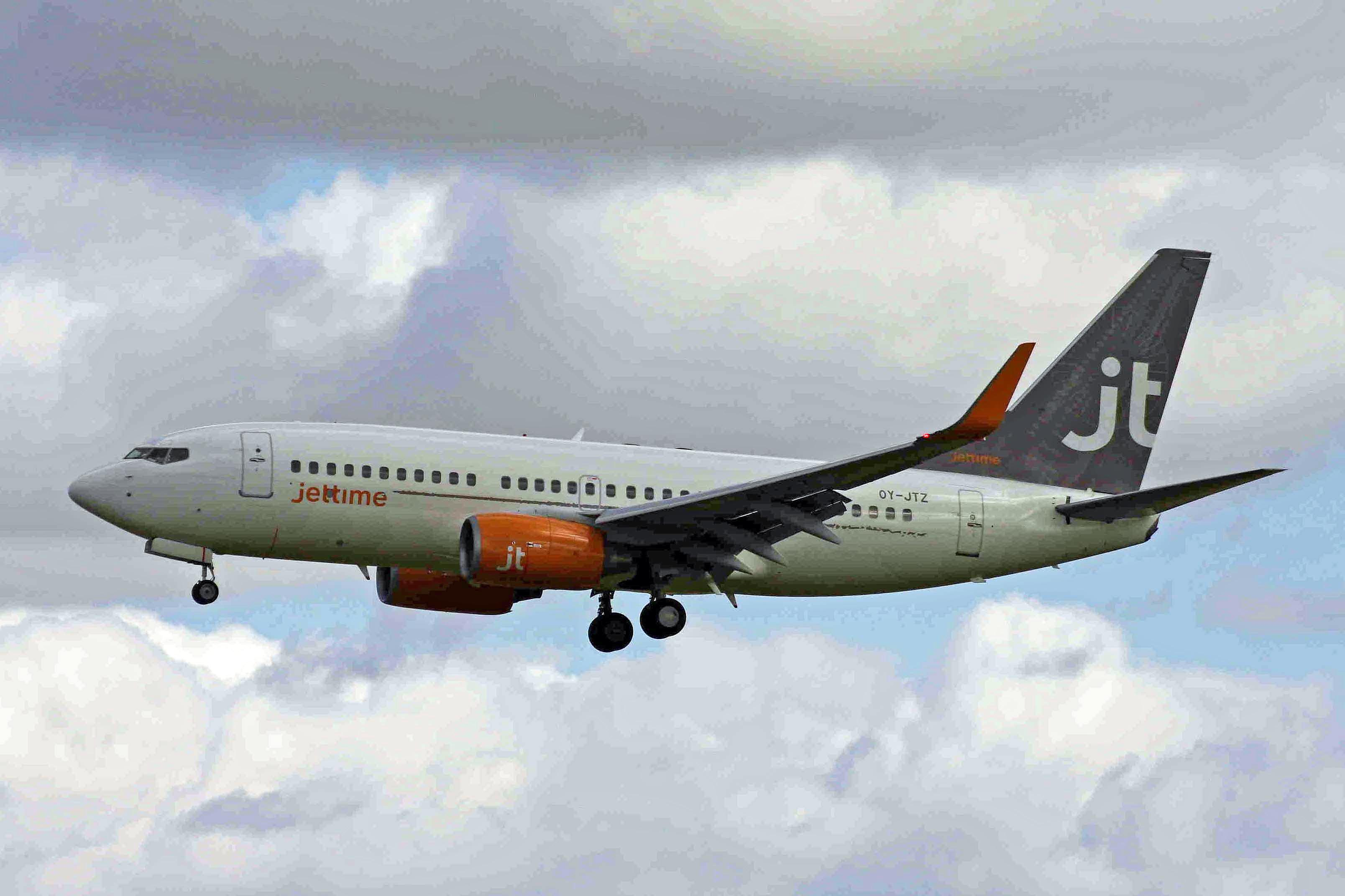 Jettime aircraft at the Palma de Mallorca airport